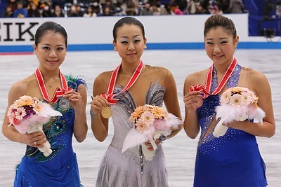 The ladies podium at the 2012 NHK Trophy. From left: Akiko Suzuki (2nd), Mao Asada (1st), Mirai Nagasu (3rd)